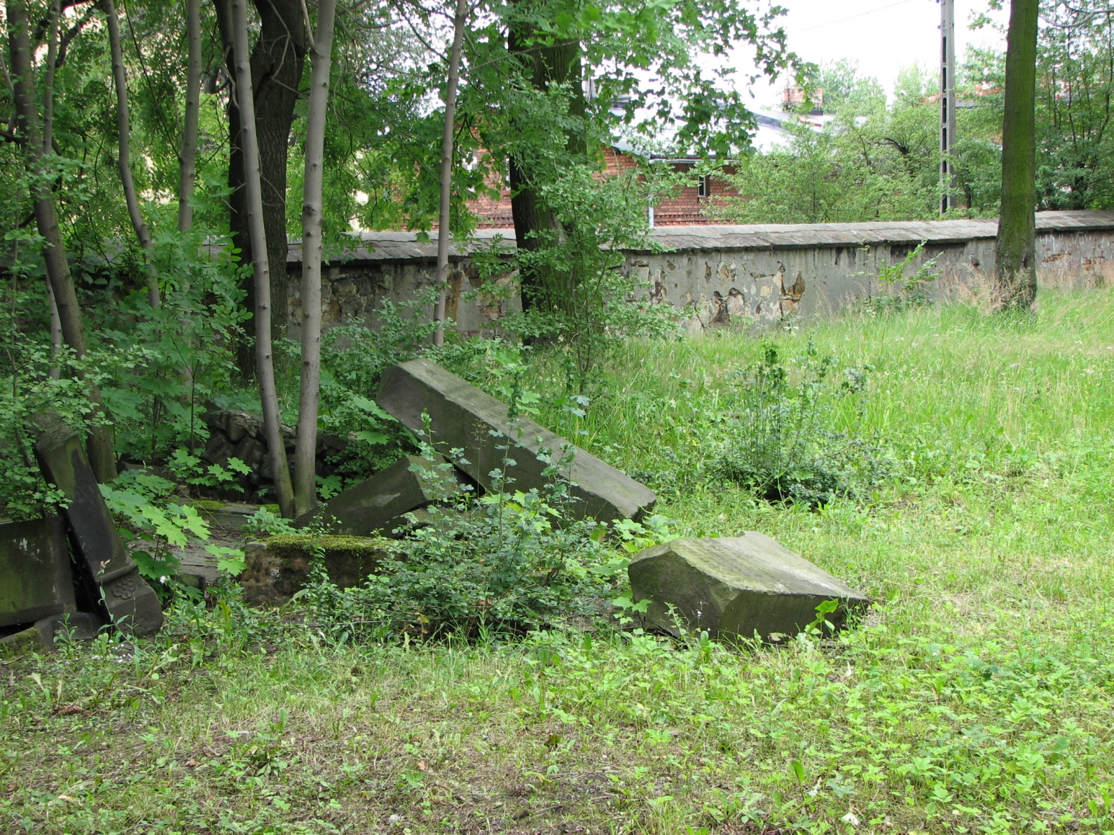 Żory, Jewish cemetery